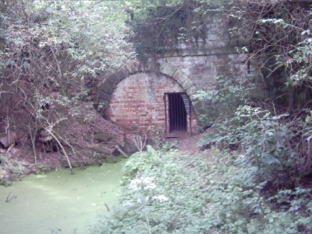 Berwick tunnel on the Shrewsbury canal. This is the disused Berwick canal tunnel (north side) on the Shrewsbury canal. For more information and pictures visit